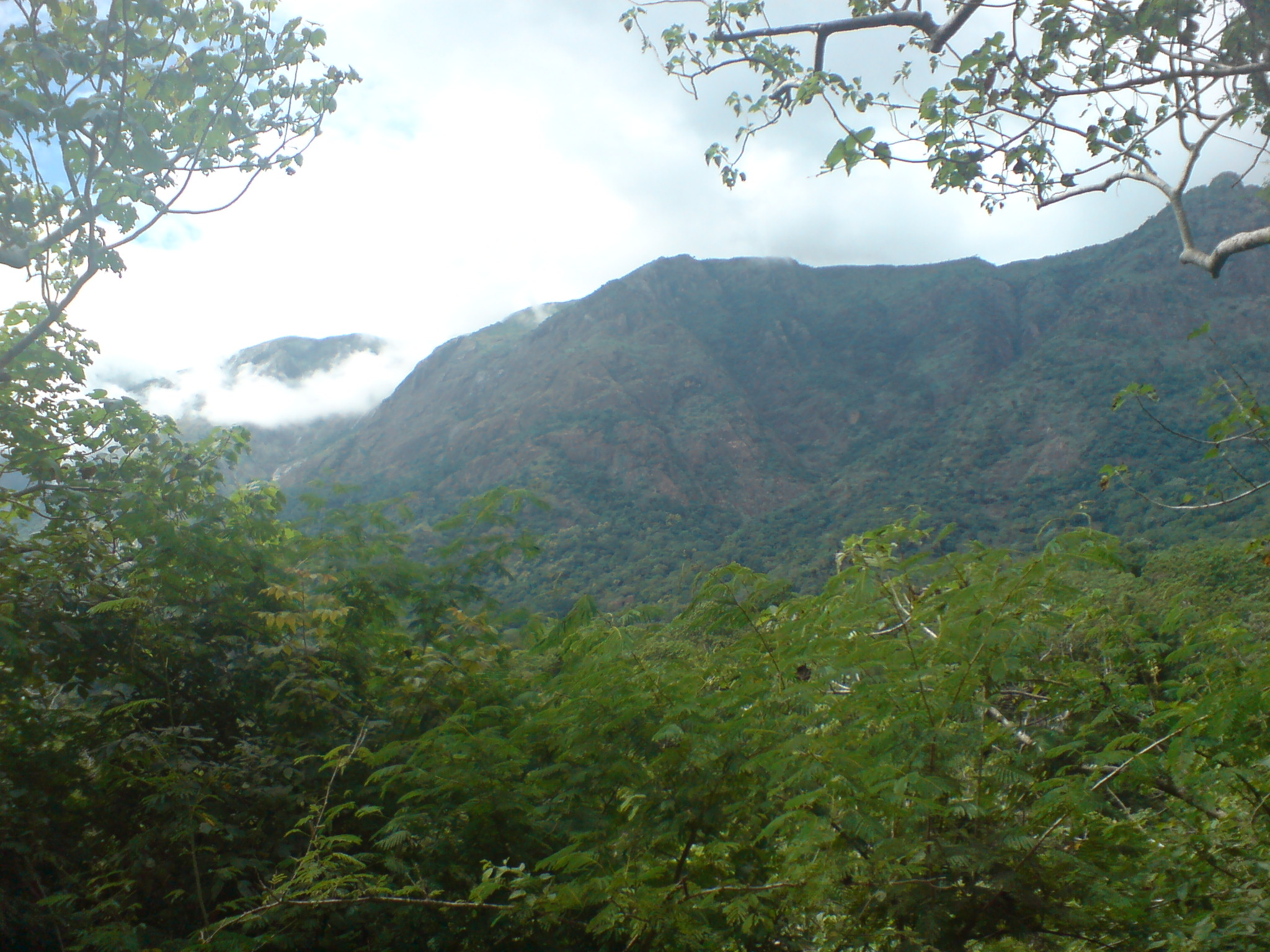 This is beautiful Shenbagathoppu. I can't forget the moments.